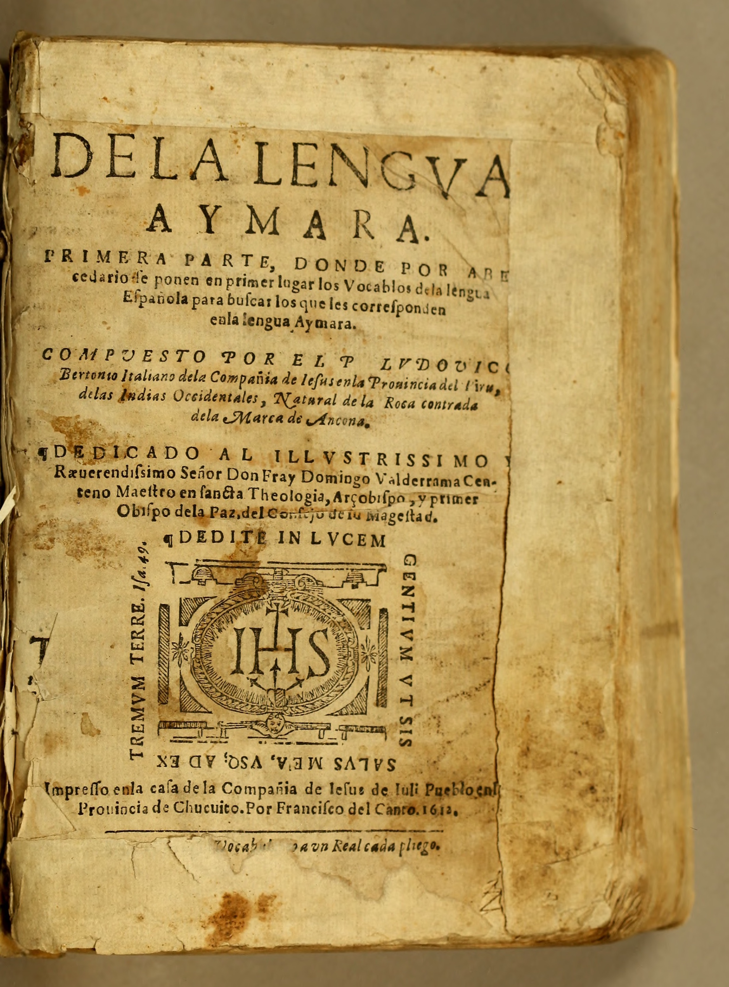 Title page of Ludovico Bertonio's Vocabulario de la lengua aymara. Primera parte, : donde por abecedario se ponen en primer lugar los vocablos de la lengua española para buscar los que les corresponden enla lengua aymara (Peru, 1612)